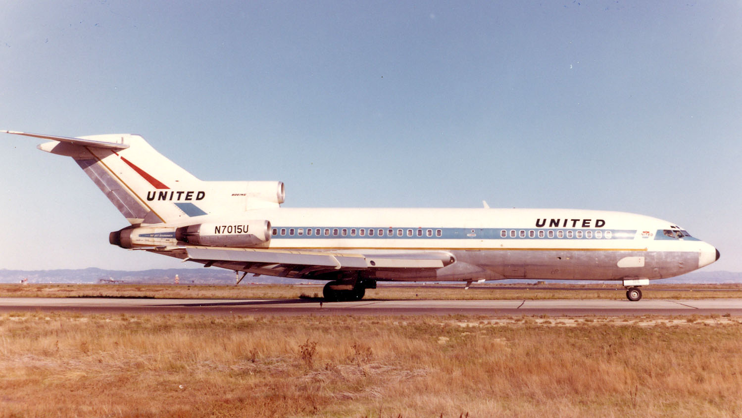 Boeing 727-100 (N7015U) of United Airlines